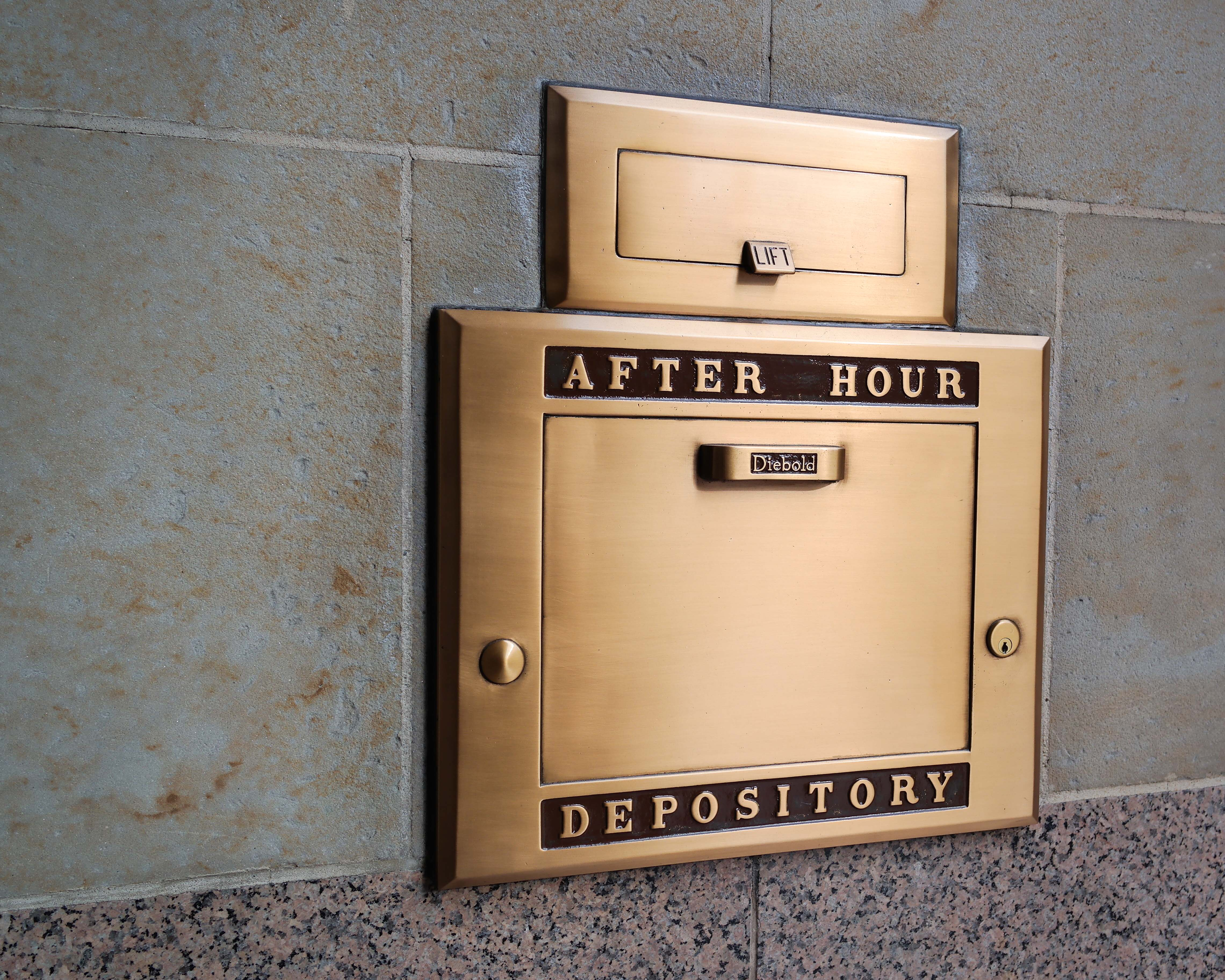 A detail of the San Diego Trust and Savings Bank building